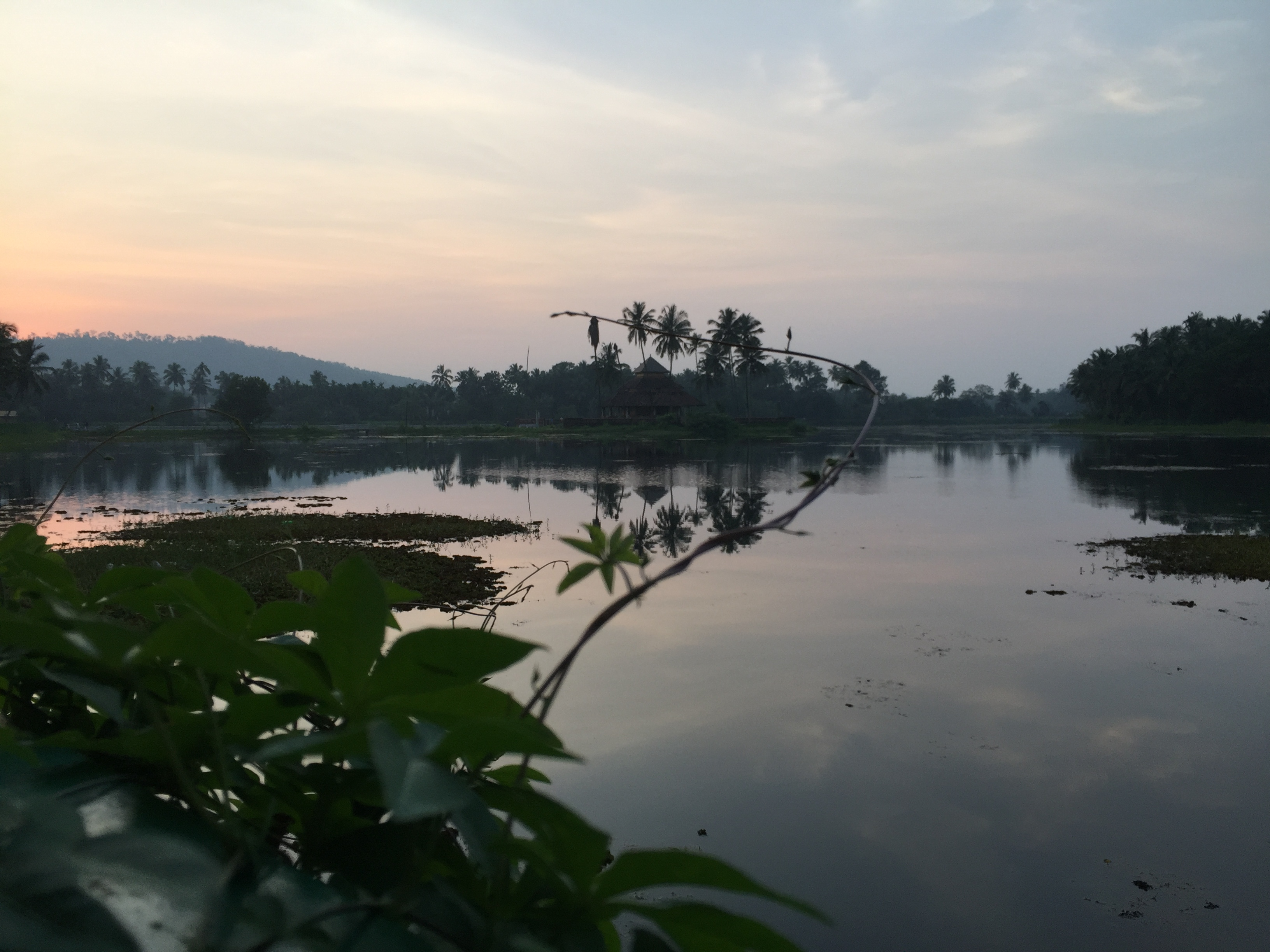 Anekere meaning 'elephant lake' in Karkala